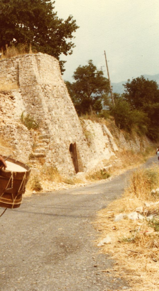 Carcara - furnace to cooking rocks to make lime